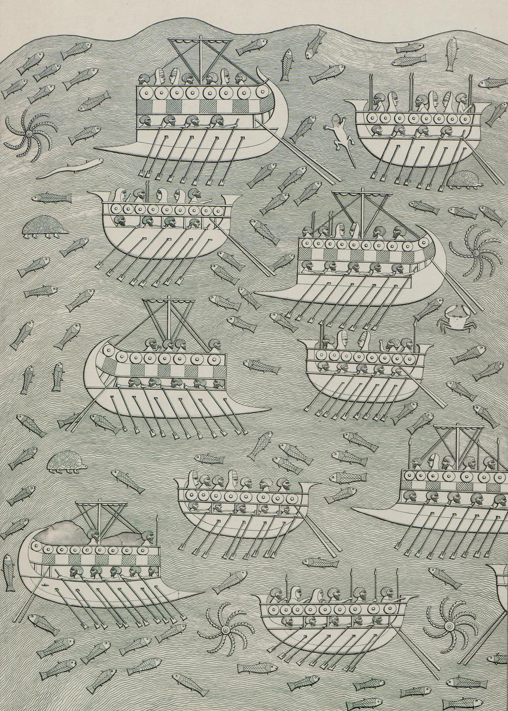 Wall relief in Niniveh, showing the evacuation of Tyre in 702 BC. A very early example of a two-tiered galley (bireme). Plate 71 in the book Monuments of Niniveh. Cropped from scan by the University of Heidelberg.